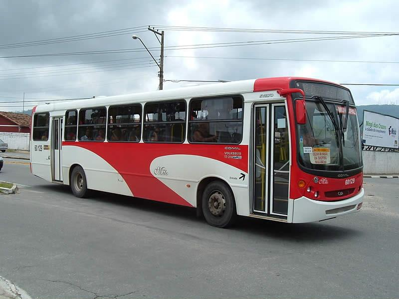 Comil Svelto bus (#60129) with Volkswagen Volksbus 17-210 OD or EOD chassis in Mogi das Cruzes, Brazil. Transportes e Turismo Eroles operator.